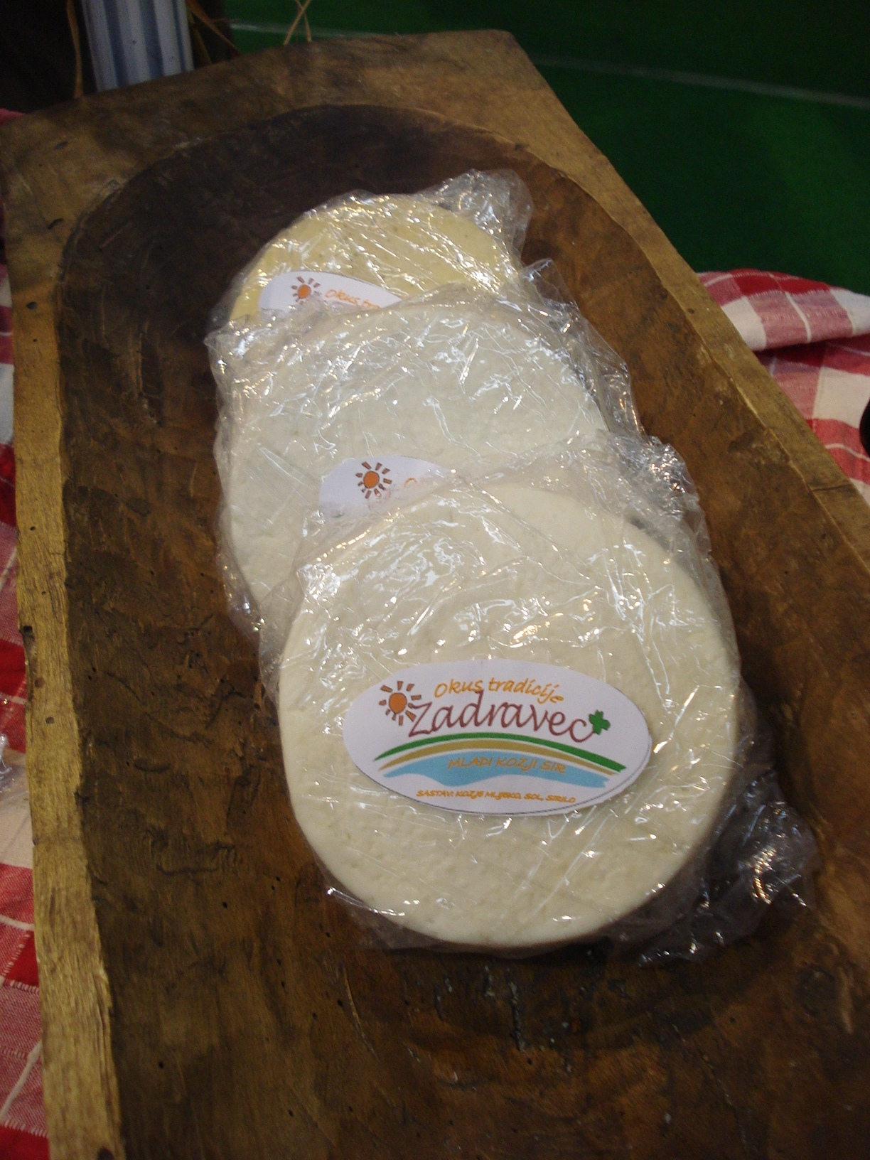 Zadravec cheese - young cheese made from goat's milk, originating from the village of Oporovec near Čakovec (Međimurje County, Croatia).